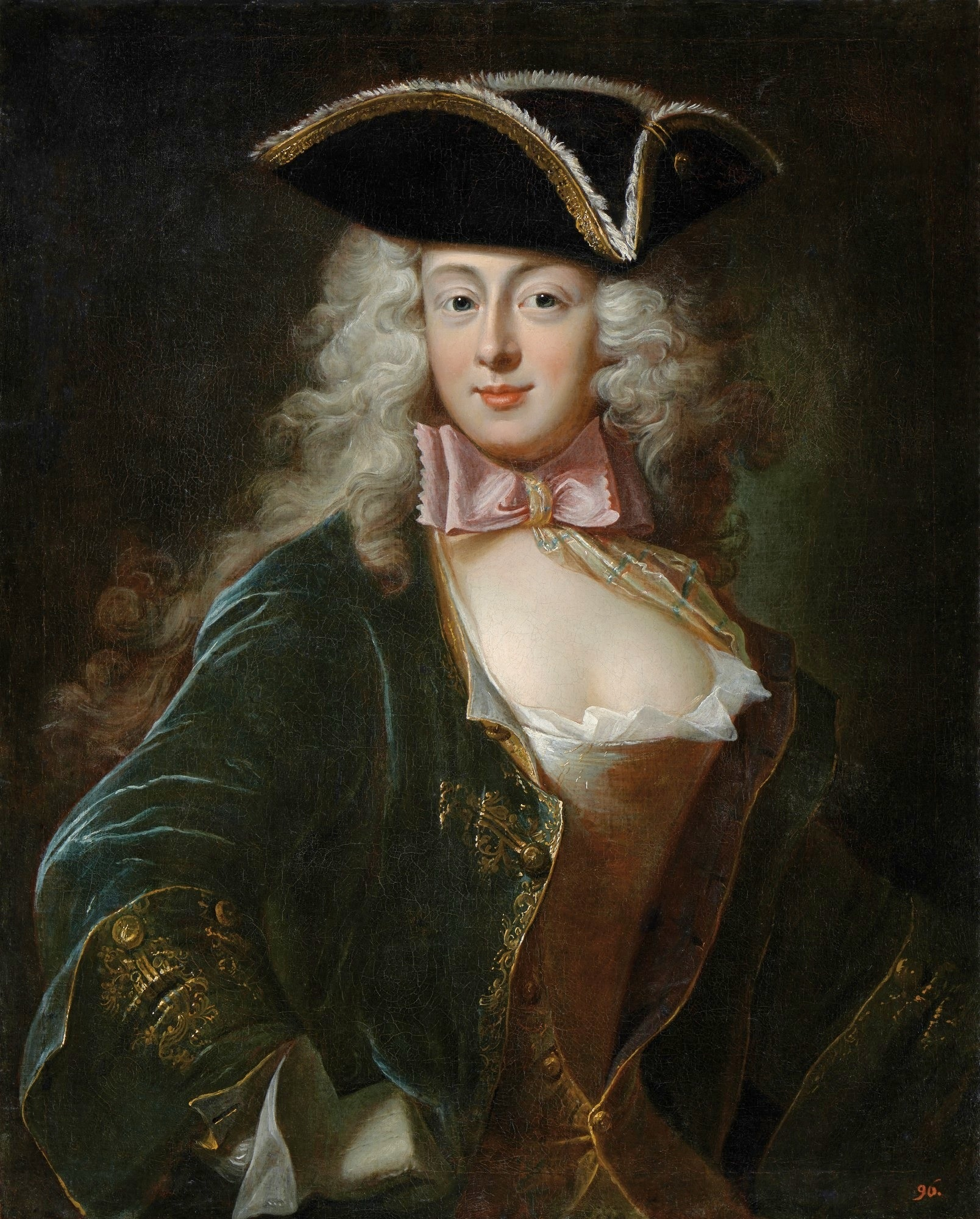 Portrait of Emerencjanna Pociej née Warszycka